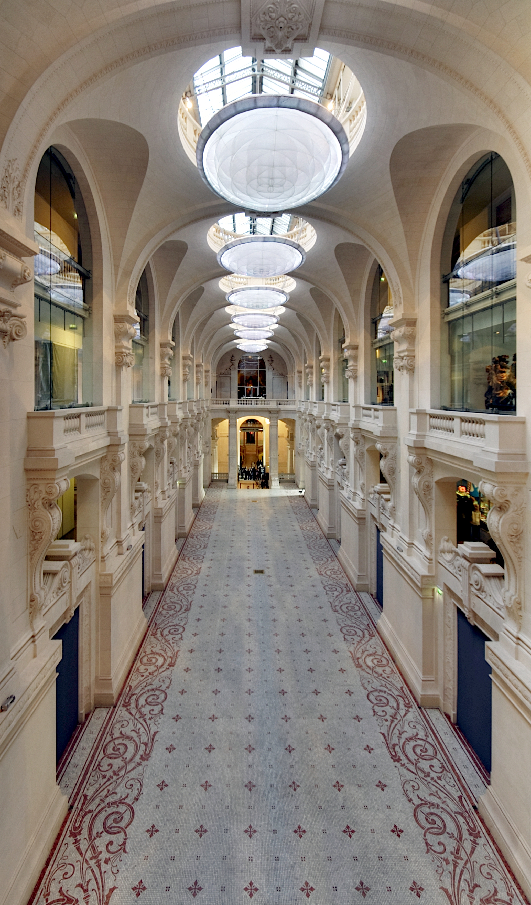 Musée des arts décoratifs, Paris, France, inside gallery